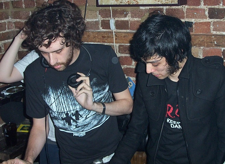 Justice